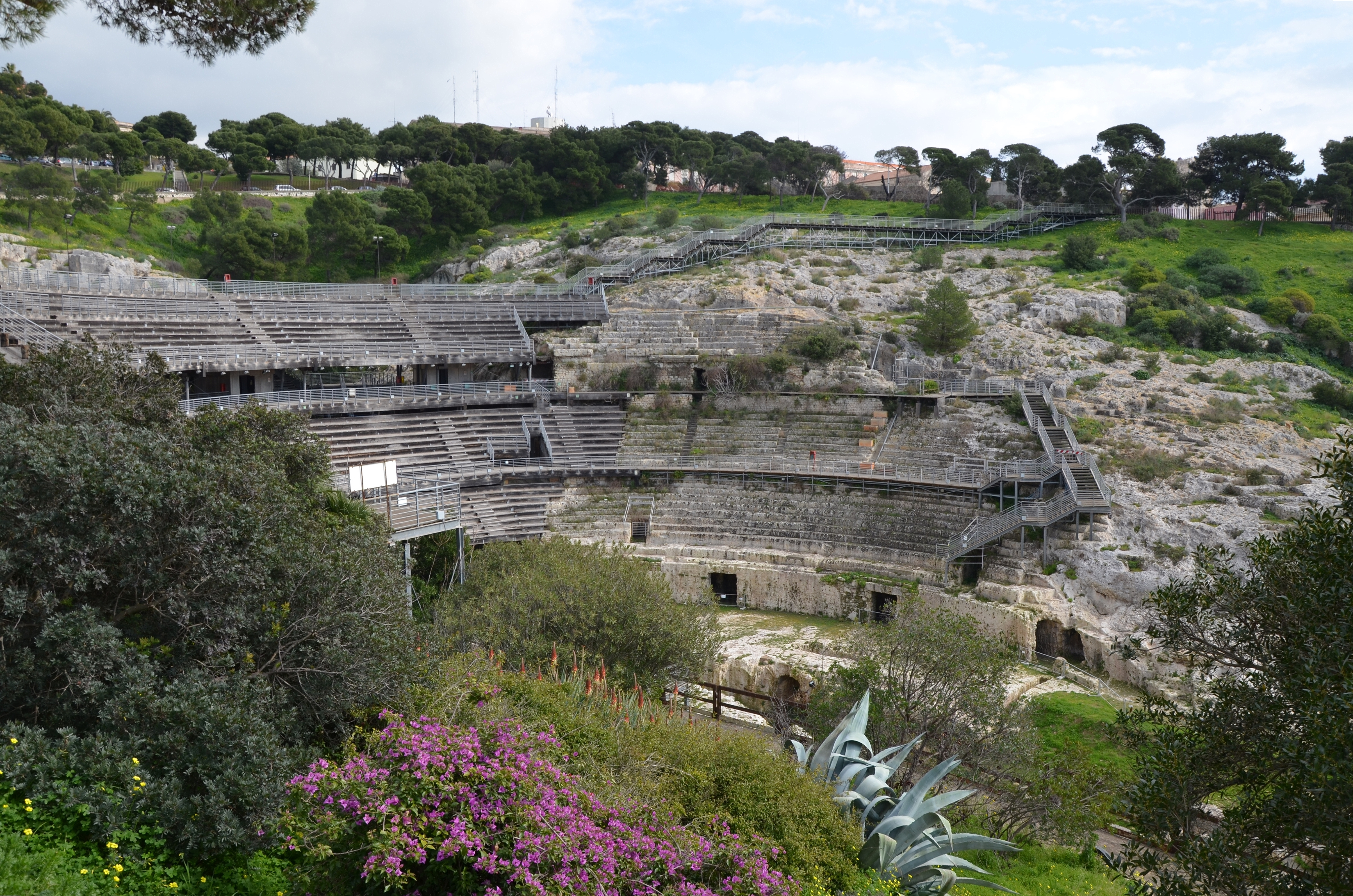 The structure, built in the 2nd century AD, was half carved in the rock, while the rest was built in local white limestone, with a façade surpassing 20 m in height. It housed fights between men and animals, of gladiators and other specialized fighters recruited in and outside Sardinia. It was also the seat of public executions. It could house up to 10,000 spectators, some one third of the Roman Caralis. The amphitheatre was no more in use starting from the 5th century AD and was subsequently used as a free stone quarry by the rulers of the area, from the Byzantines, the Republic of Pisa, the House of Aragon and others. The area was acquired by the comune of Cagliari in the 19th century and excavated under the direction of a clergyman, Giovanni Spano. It is now used for musical representations, which needed the construction of a structure whose presence has raised criticism due to its size.